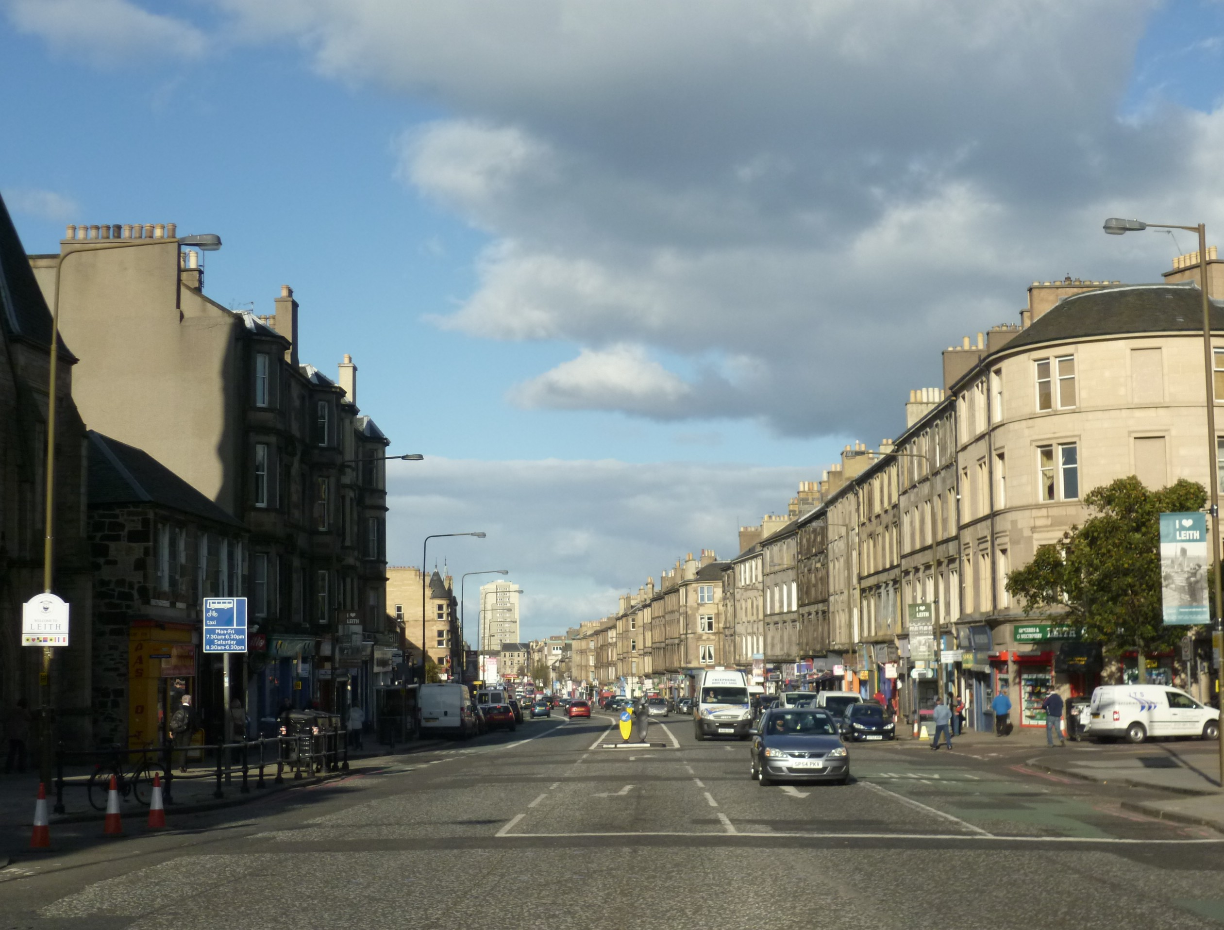 A view looking towards Leith from Pilrig Street and Iona Street.